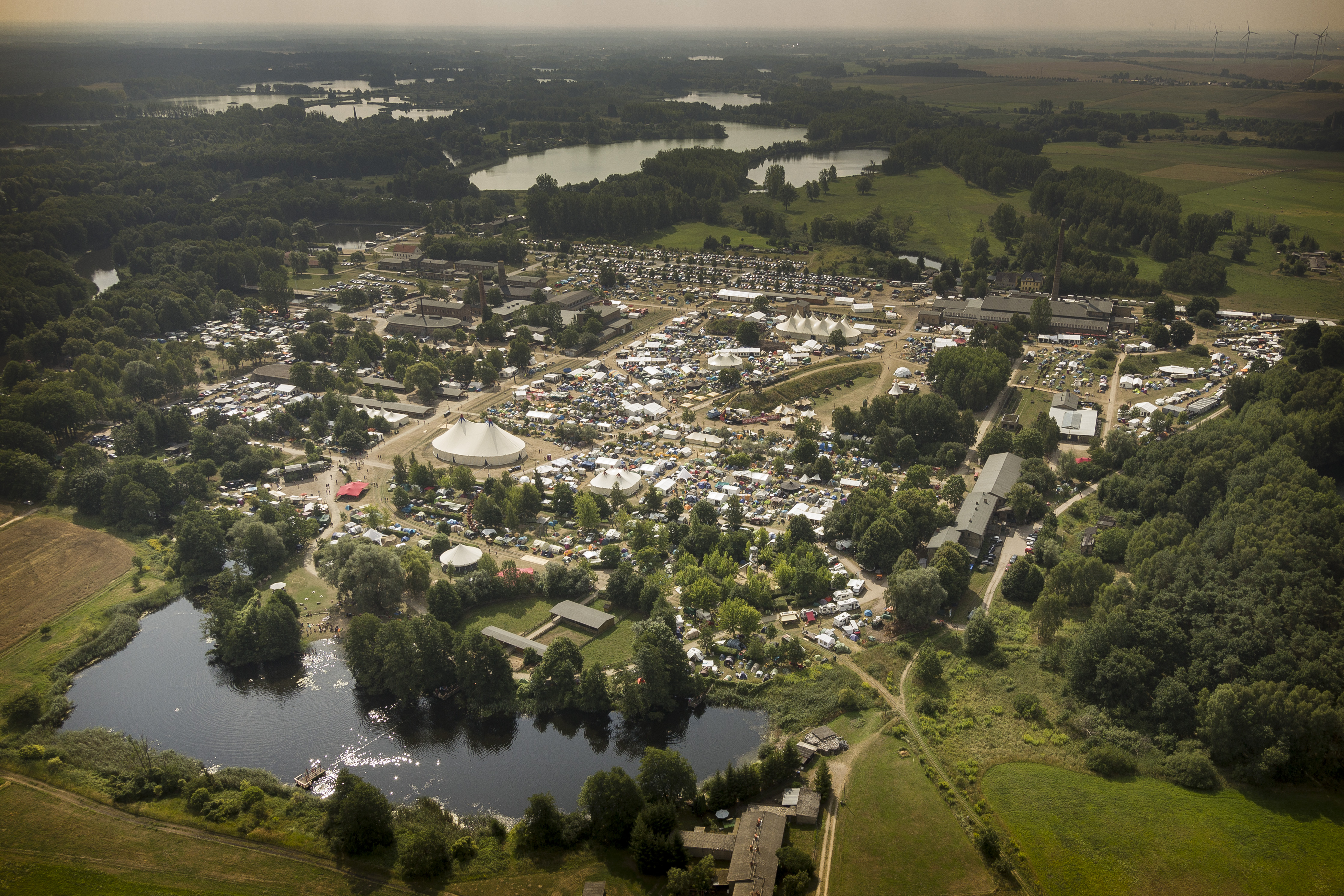 Image taken from above the airfield on day 4 of the cccamp15